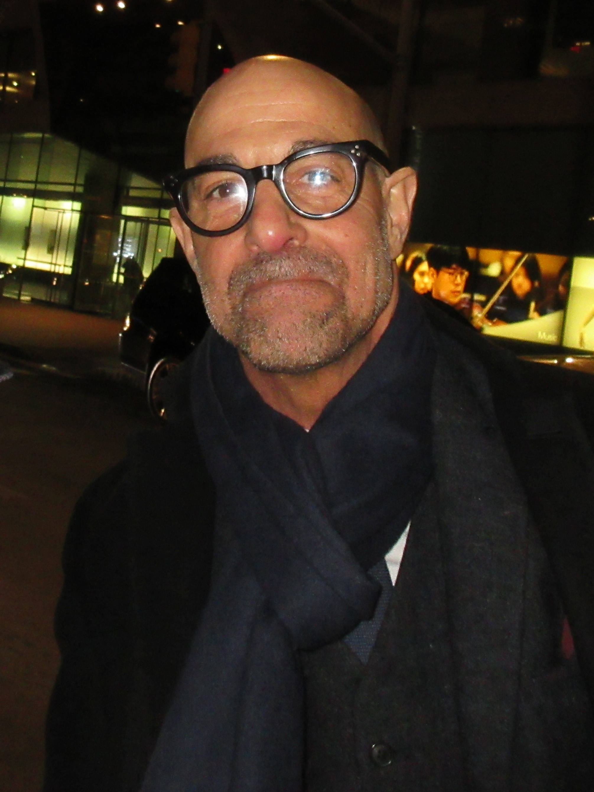 Star of Road to Perdition, The Devil Wears Prada, Captain America and The Hunger Games. NYC April '18.